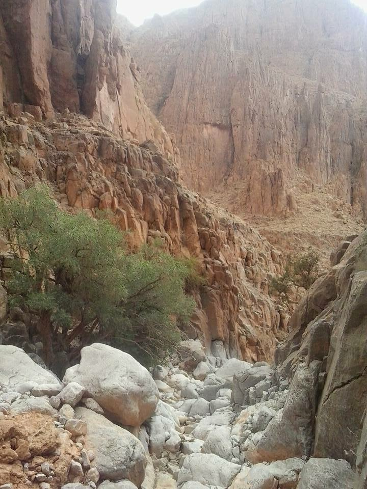 Biskra